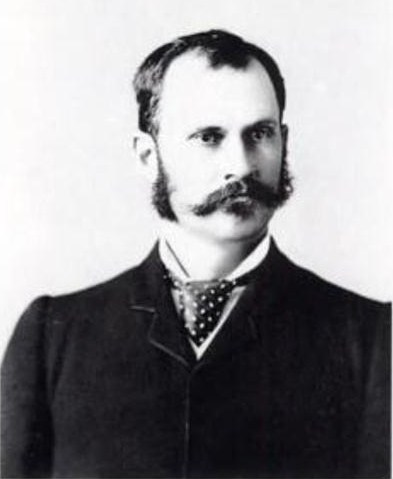 Lorrin Andrews Thurston (July 31, 1858–May 11, 1931) was a lawyer, politician, and businessman born and raised in the Kingdom of Hawaiʻi.